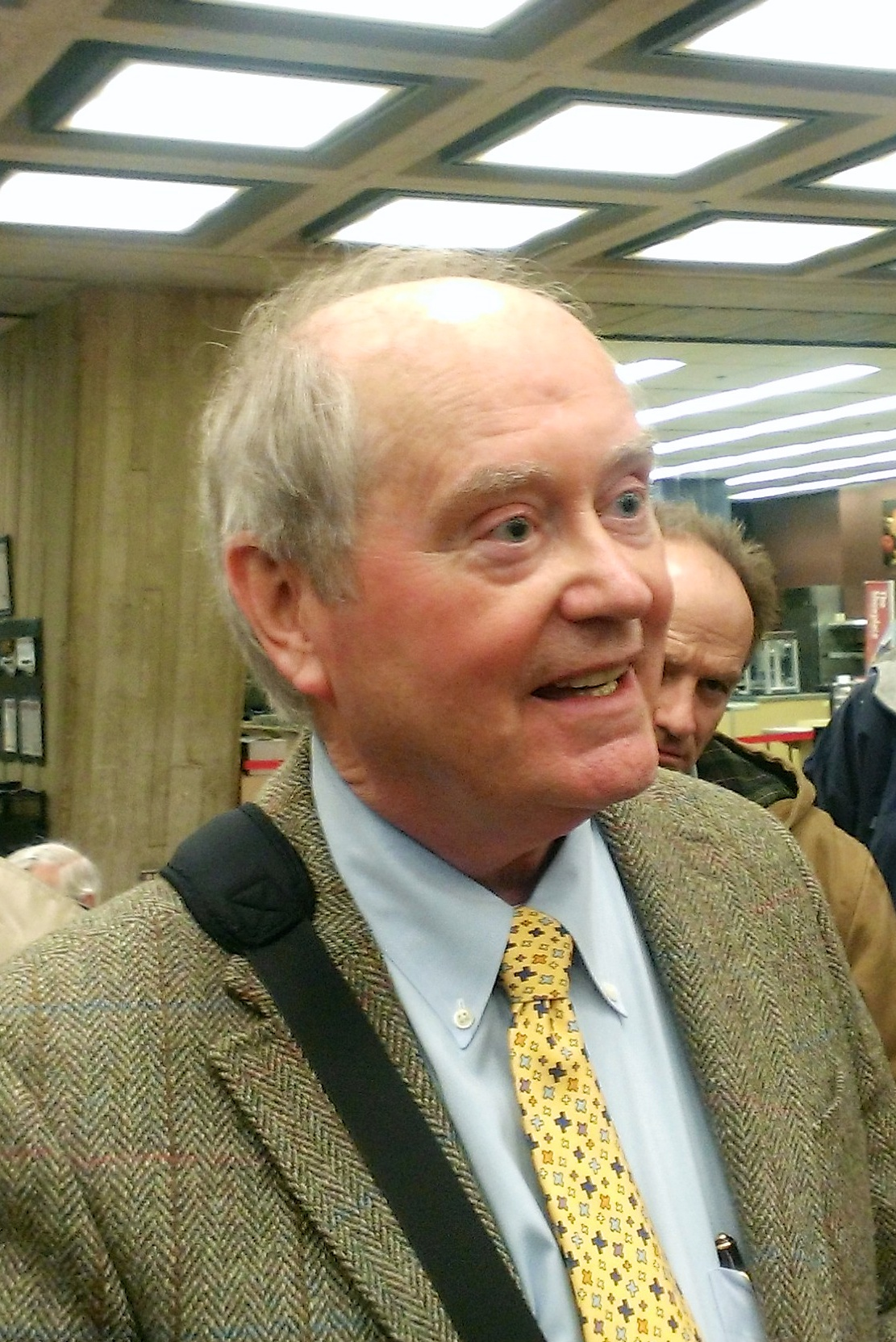 Dr. Chris Quigg, shortly after giving a lecture entitled "The World According to Higgs" at Fermi National Accelerator Laboratory's Wilson Hall.